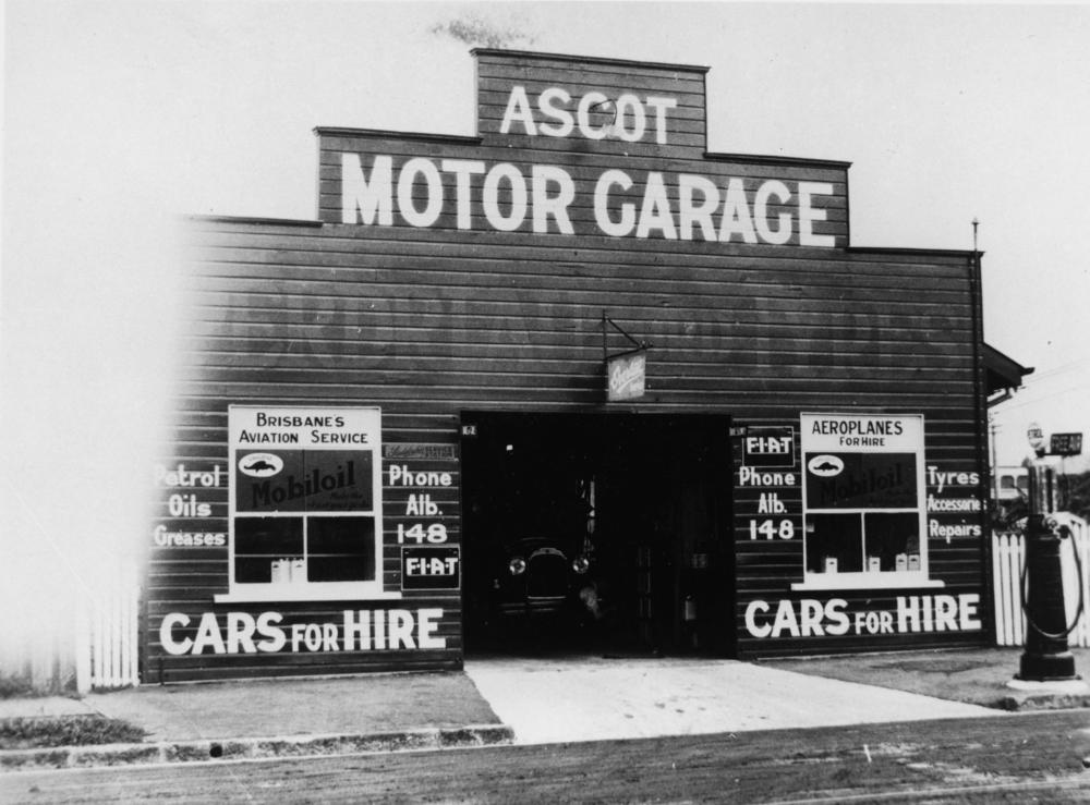 Ascot Motor Garage in Racecourse Road, Ascot, Brisbane, 1920s Signs on front of building: Brisbane Aviation Service, aeroplanes for hire. Cars for hire. Tyres, Accessories, Repairs, Petrols, Oils, Greases. Mobiloil. Phone Alb.(Albion) 148.